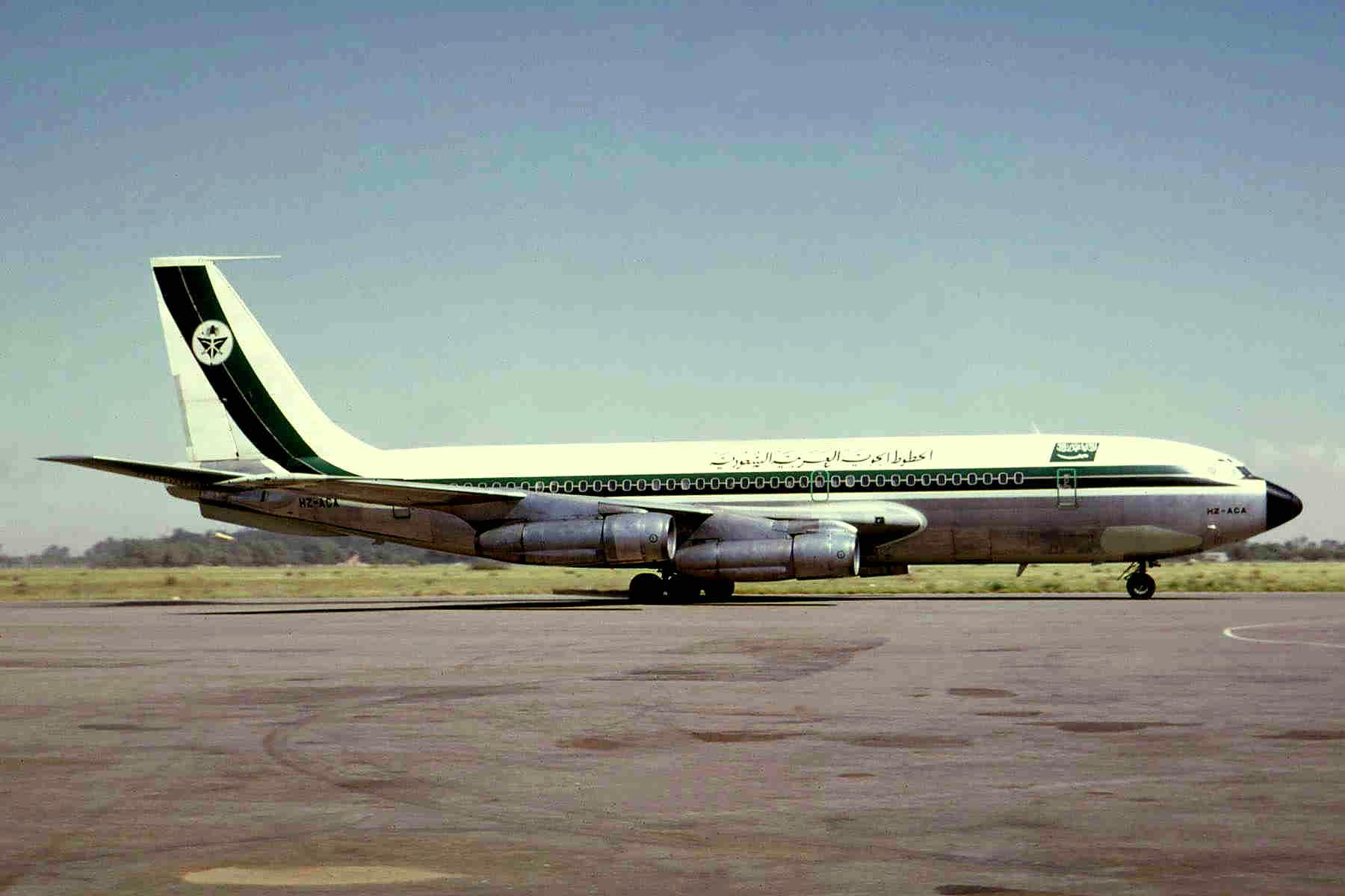 Sneaky photo taken at Tripoli (TIP) from behind a GPU